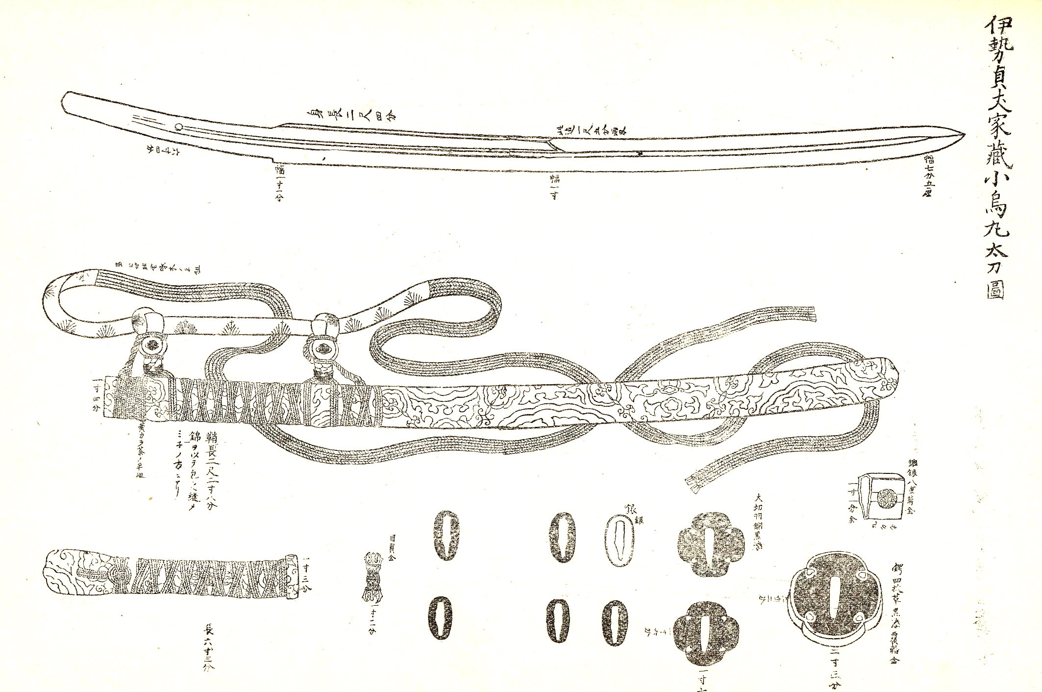 Kogaras-Mar(小烏丸) was a famous japanese sword.This picture was in Japanese book "集古十種(Shūko Jyusshu)".